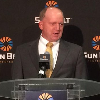 Paul Petrino, head coach of the Idaho Vandals football team, at the 2015 Sun Belt Conference Media Day in the Mercedes-Benz Superdome in New Orleans.